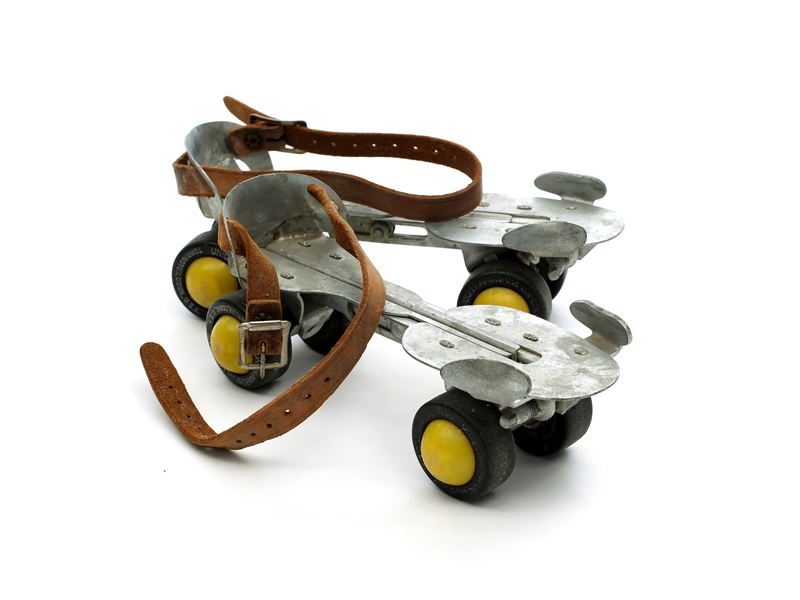 A pair of roller skates within the permanent collection of The Children's Museum of Indianapolis. Roller skates were invented in the 1700s, but they didn’t really become popular until the 20th century. Skates like these fit on over your shoes and were adjustable.